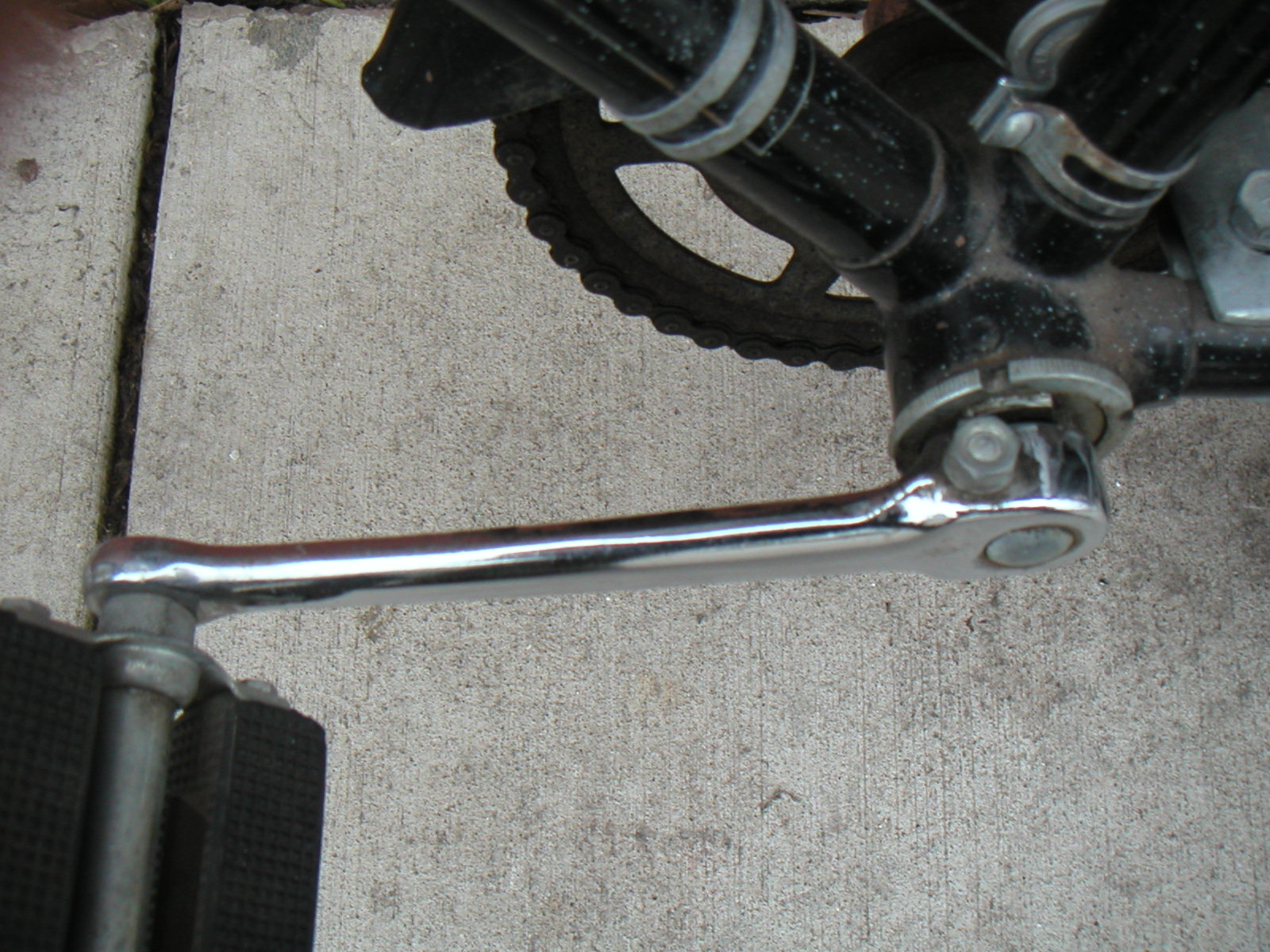 Taken by Andrew Dressel